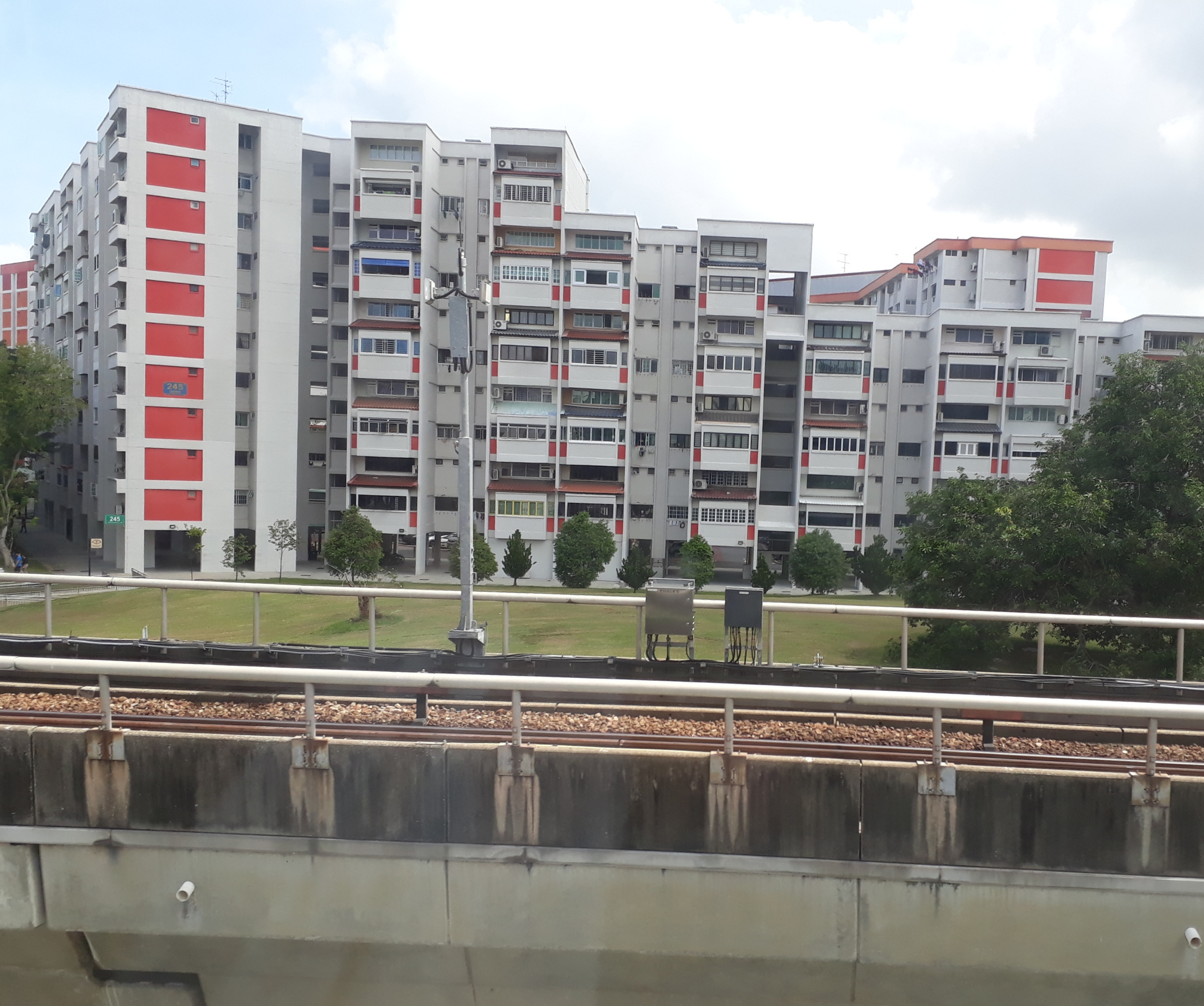 Signalling equipment along MRT track